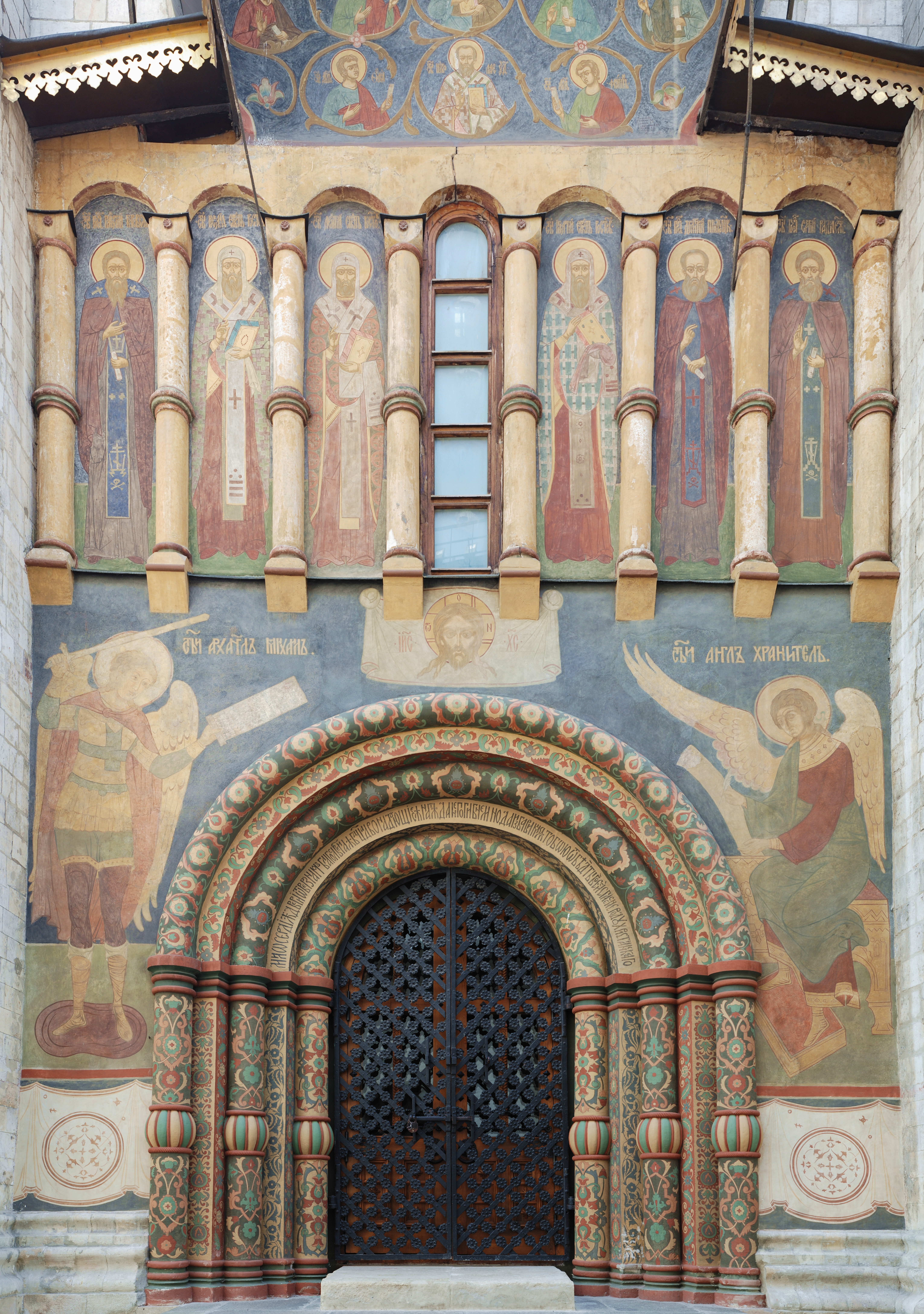 Northern door of the Dormition (Assumption) Cathedral in the Kremlin, Moscow. Panorama of fifteen images